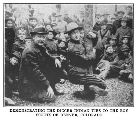 Charles Kellogg demonstrating an Indian technique of punishment by locking the legs around a tree to boy scouts